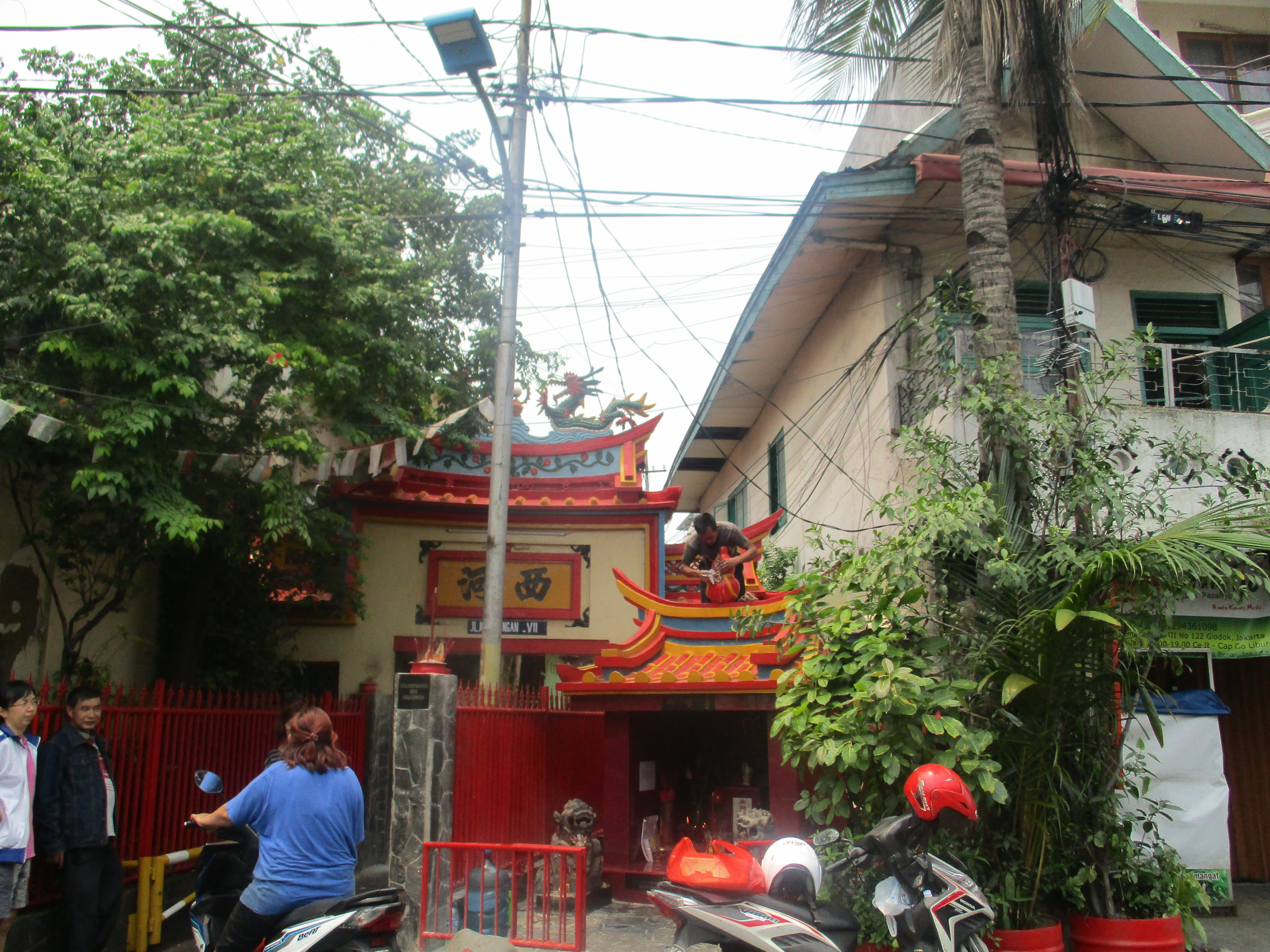 Alleyway in Glodok, Jakarta